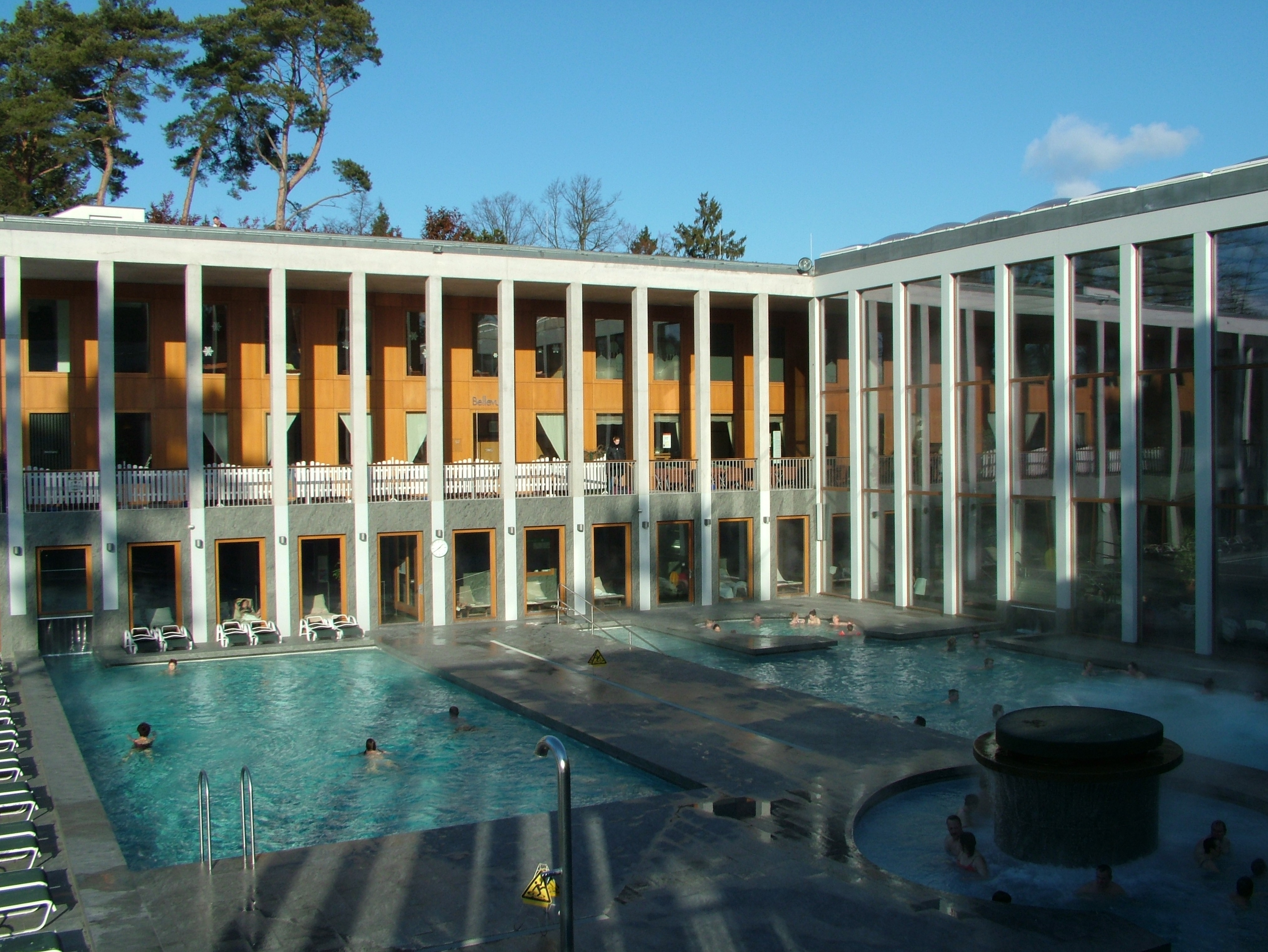 Bad Saarow, Germany, the bath